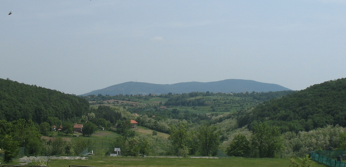 View on Kosmaj from Country Club Babe, near Belgrade, Serbia.